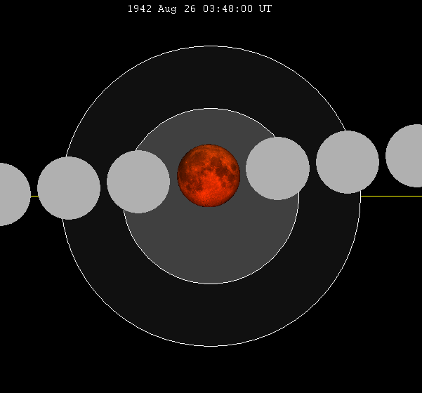 August 1942 lunar eclipse chart of moon's total lunar eclipse path through the earth's shadow. thumb